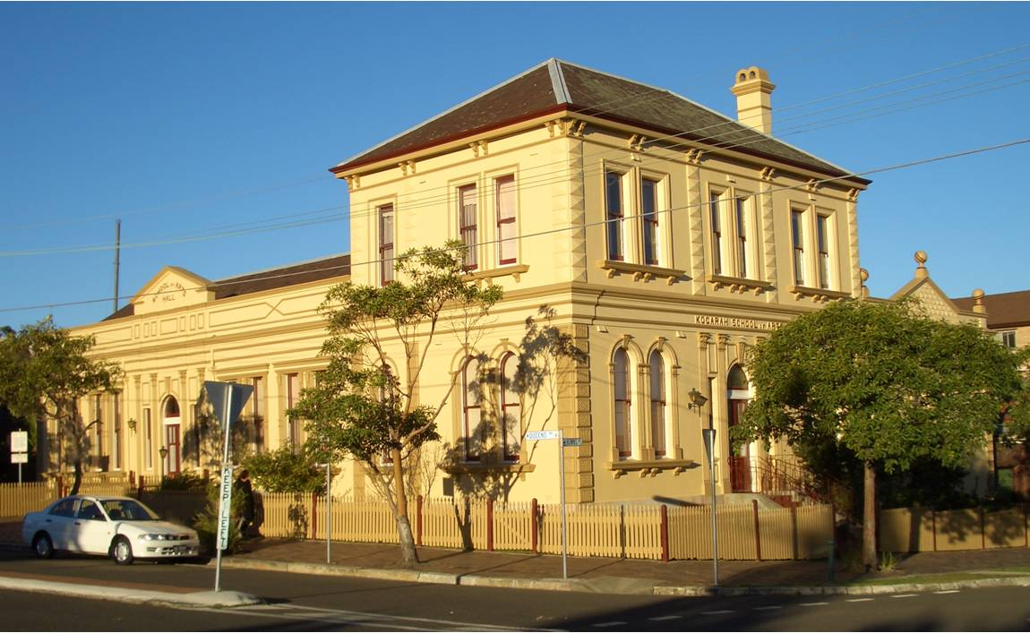 Kogarah School of the Arts Hall in Kogarah, Sydney, Australia.